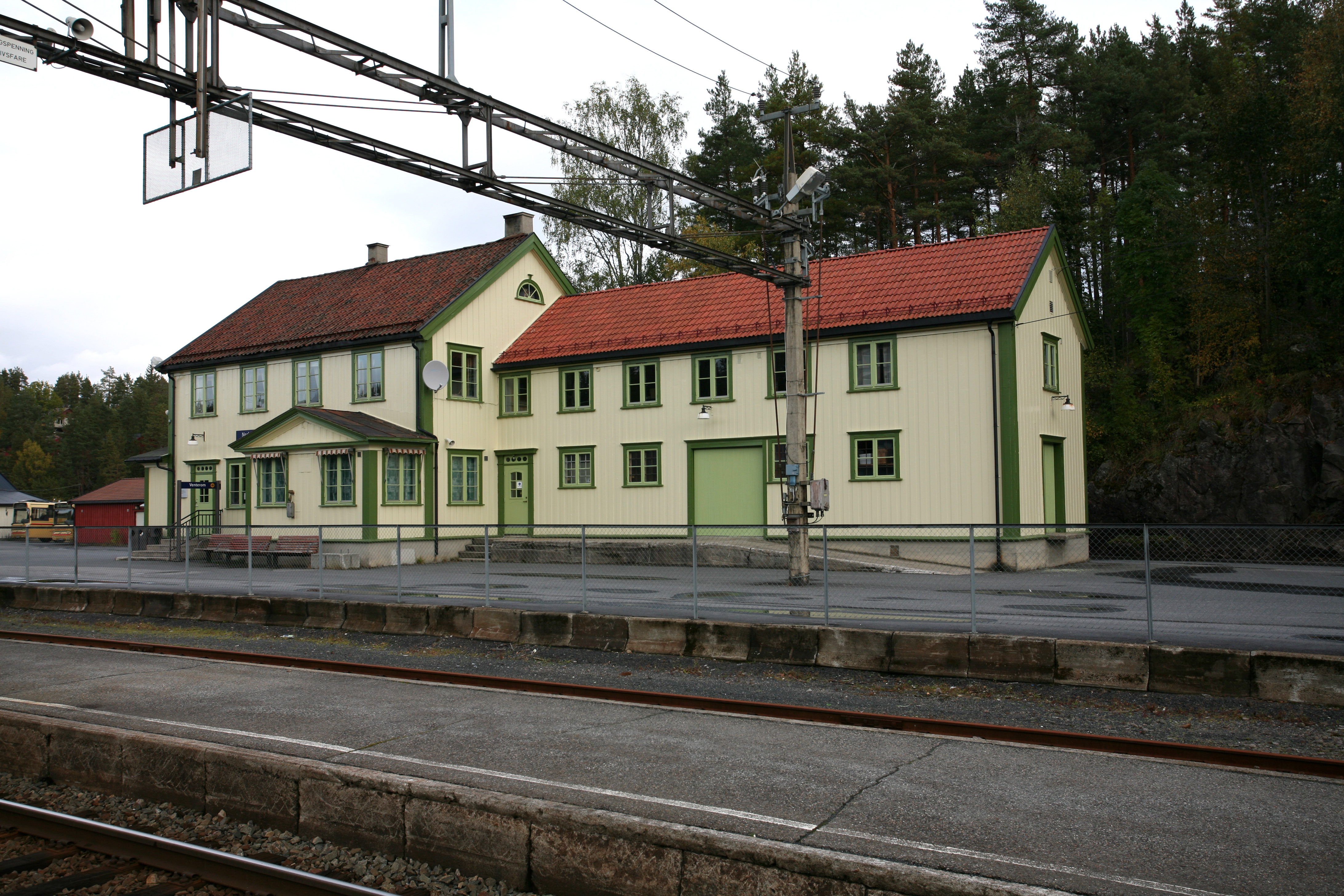 Picture of Neslandsvatn Railway Station (Telemark - Norway)